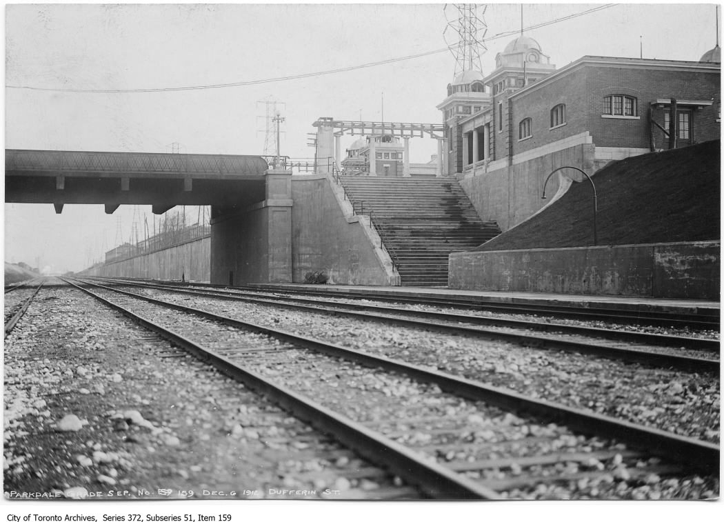 Dufferin Street CNE station, south side, looking southeast